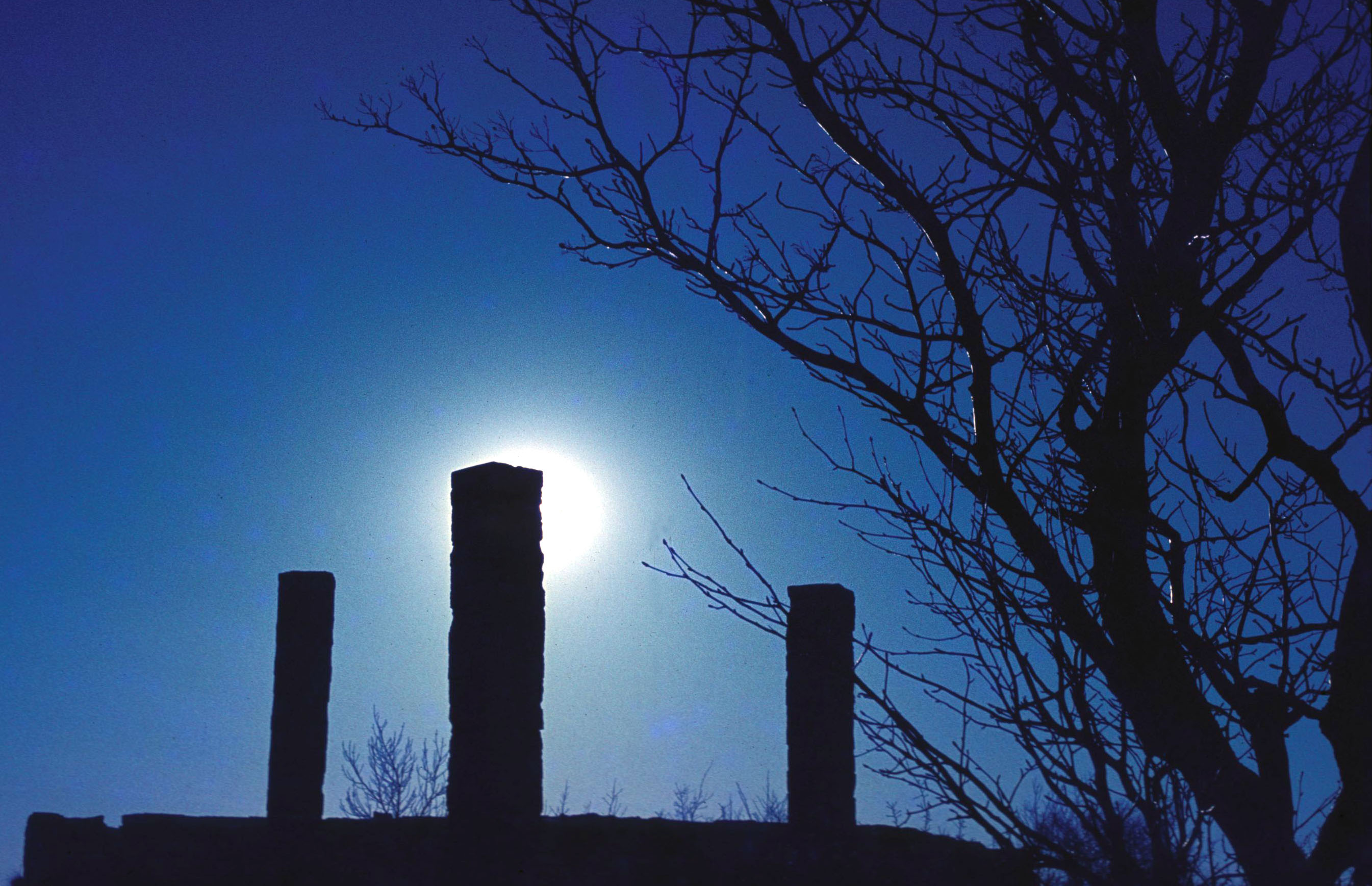 Gallows on Gotland (near Visby), Sweden.